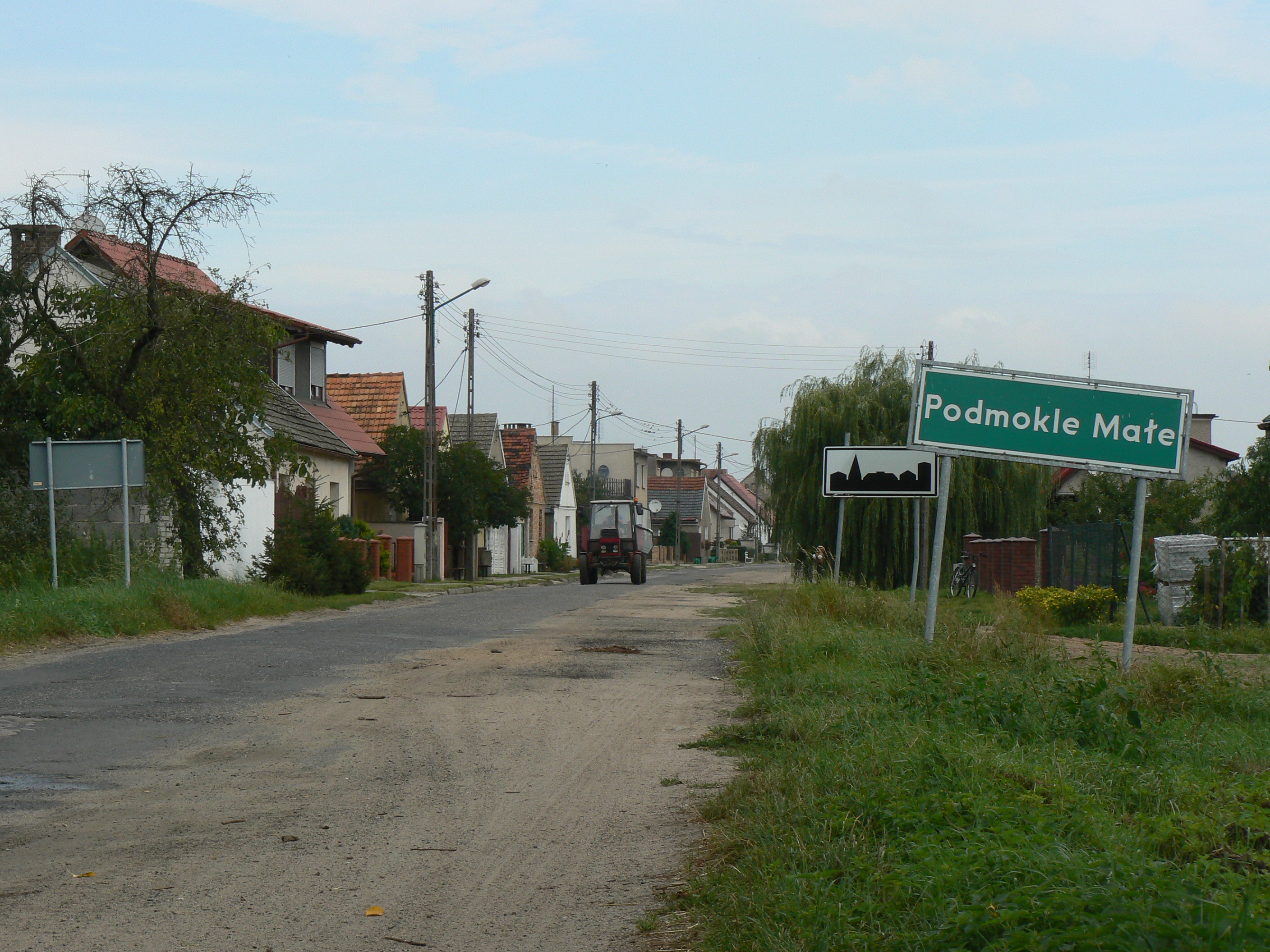 Podmokle Małe, a village in Poland, Lubusz Voivodeship, Zielona Gora County, Gmina Babimost. View from south west.